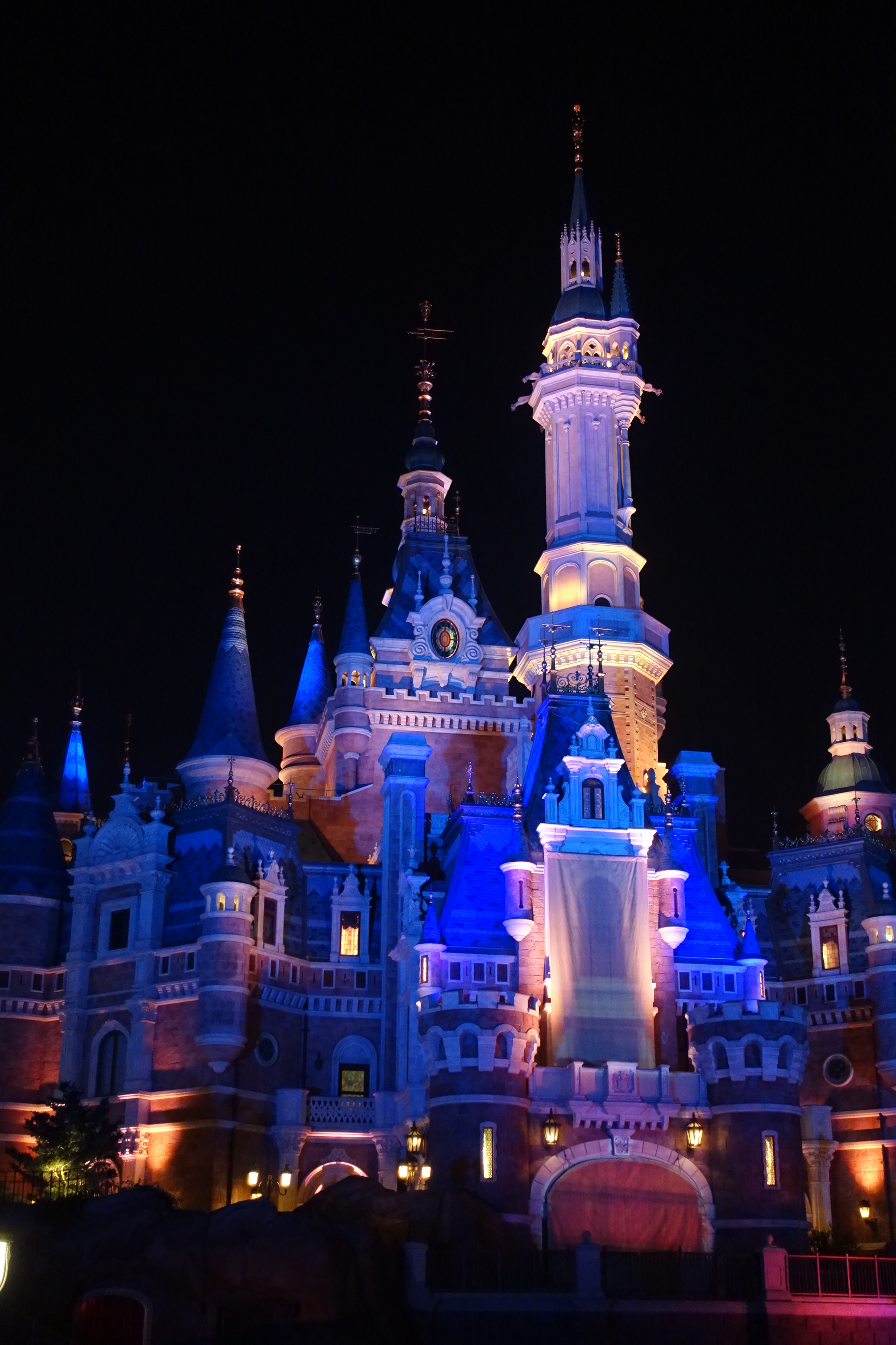 Enchanted Storybook Castle